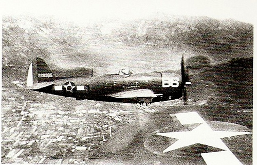 A Brazilian P-47 escorting a US Bomber WWII